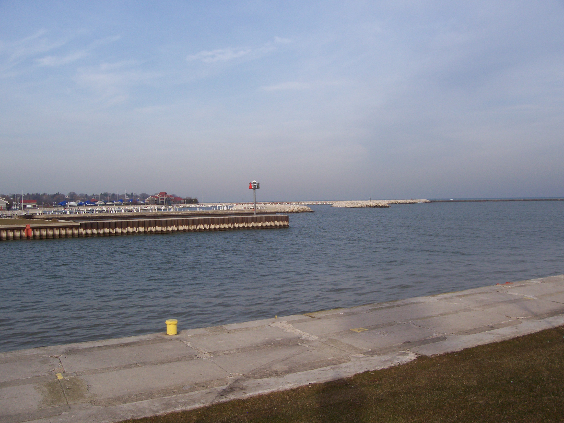 The mouth of the Sheboygan River as it empties into (the Great Lake) Lake Michigan in downtown Sheboygan, Wisconsin, USA.